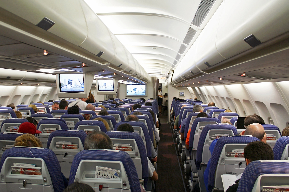 "Rosa Chacel". Before 10-hours night flight to Madrid (Fortalesa, Sal island, Canarias). First time cabin view of the plane on . I thought that new plane due really new seats in the cabin but EC-GJT was made in 1996. Cool.